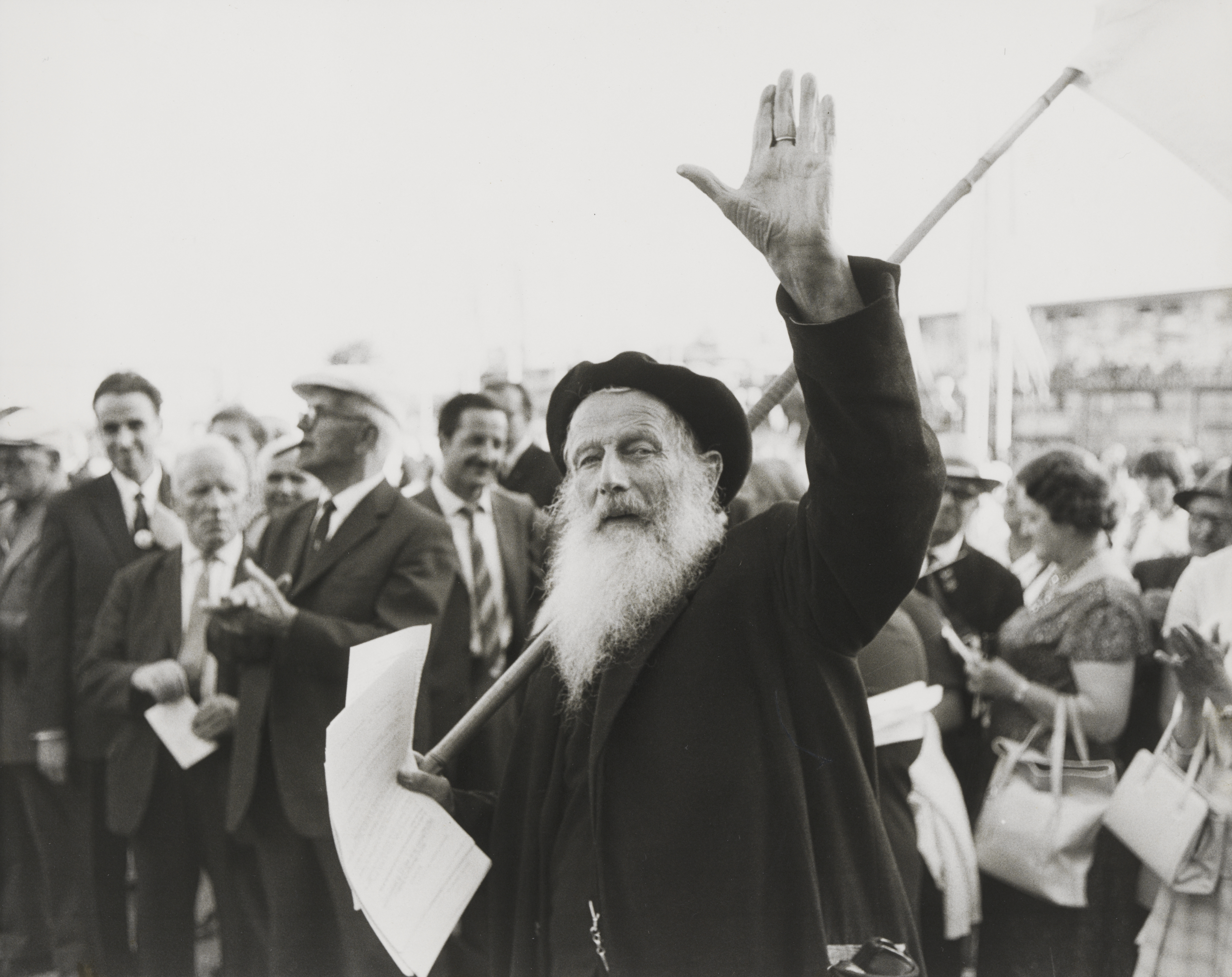 The Swiss peace activist Max Daetwyler, at the Comptoir Suisse in Lausanne (Switzerland).